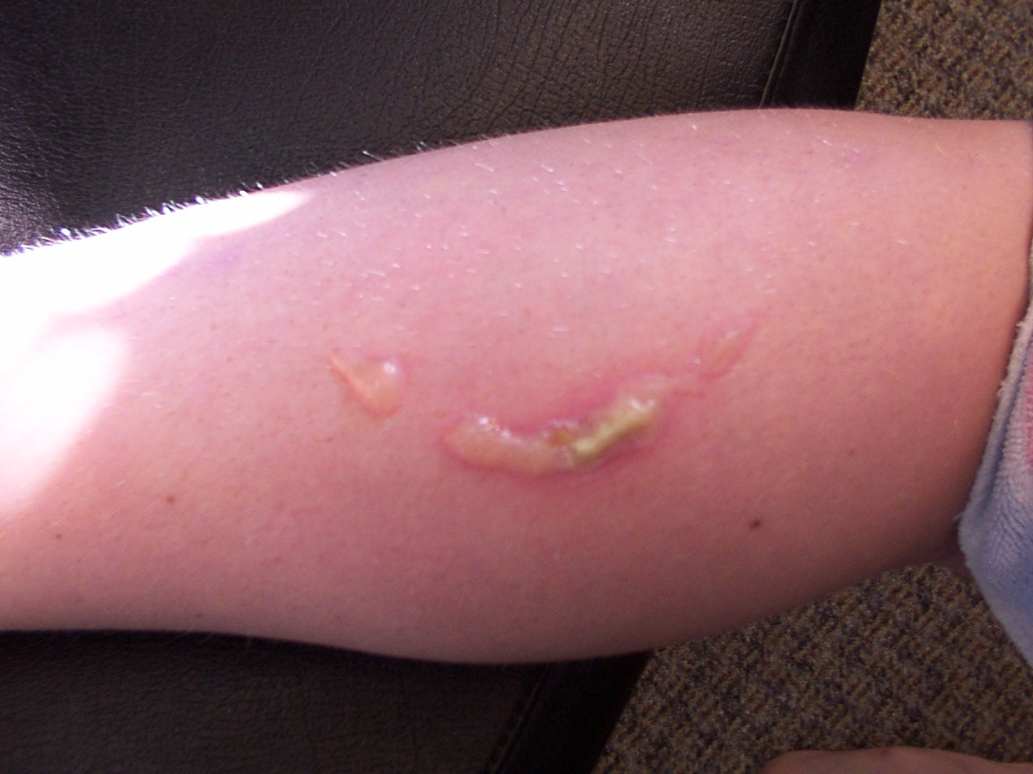 No copyright. Author is EzyTyper. Picture taken in Australia, 2001.